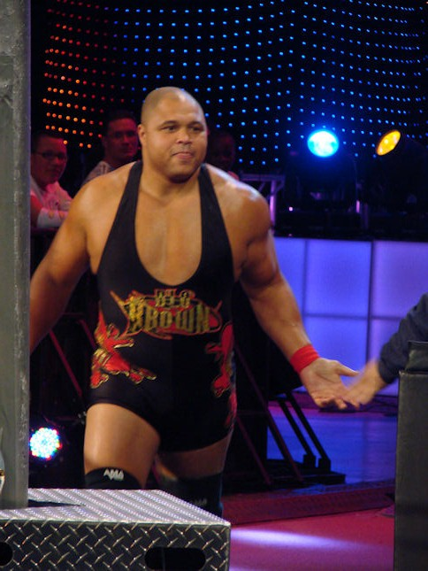 Wrestler D'Lo Brown